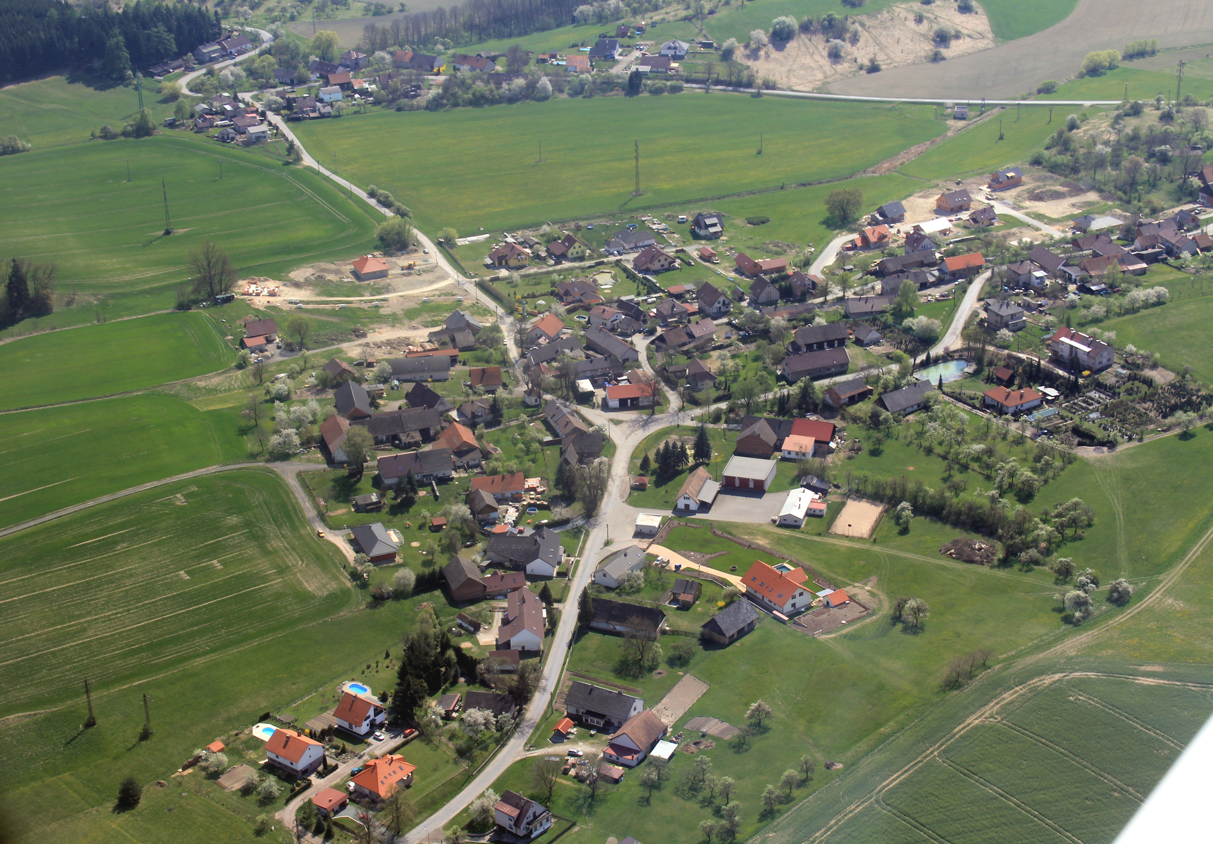 Village Lipovka part of town Rychnov nad Kněžnou from air, eastern Bohemia, Czech Republic